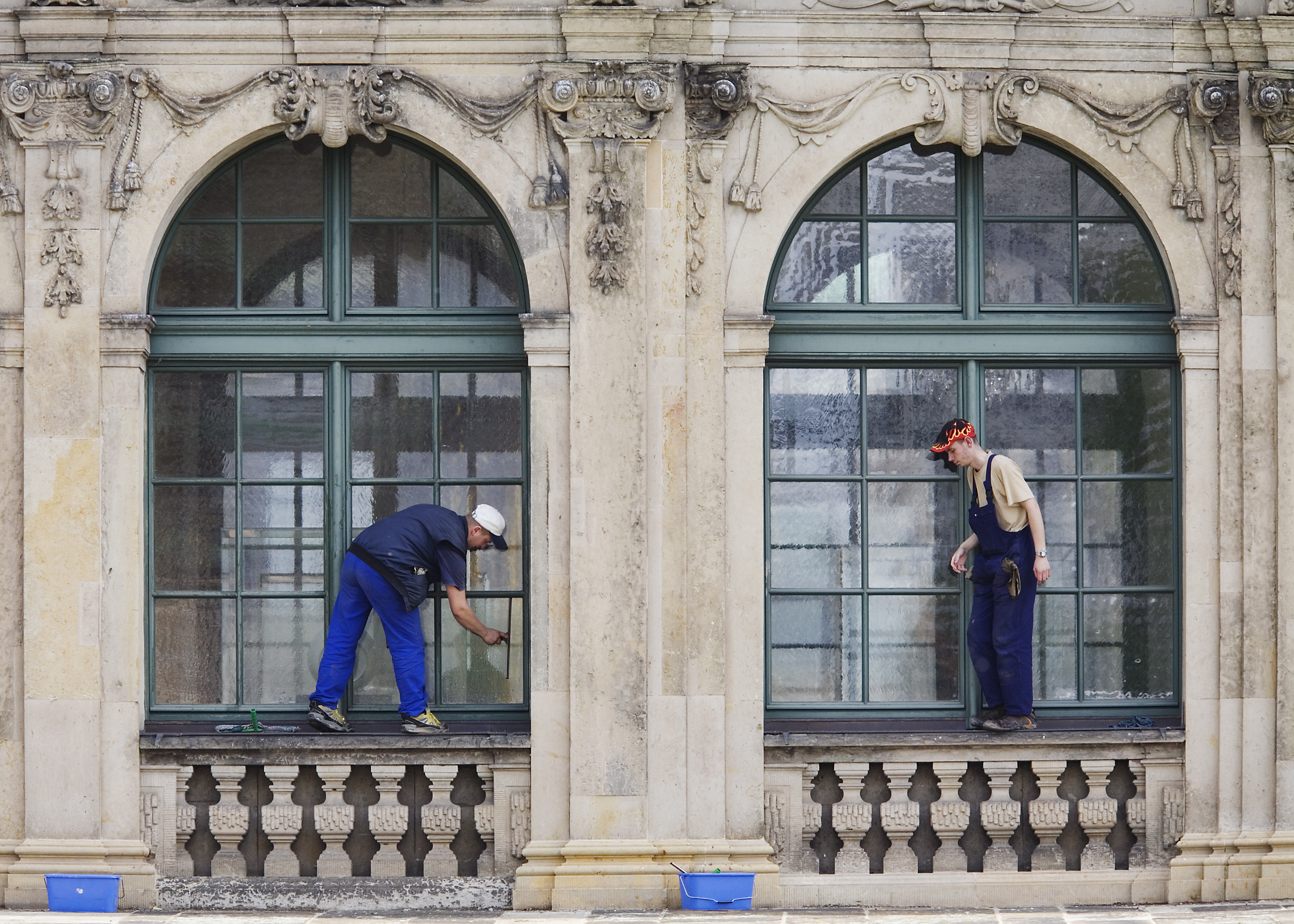 Window cleaners in Dresdner Zwinger Museum. Dresden, Germany